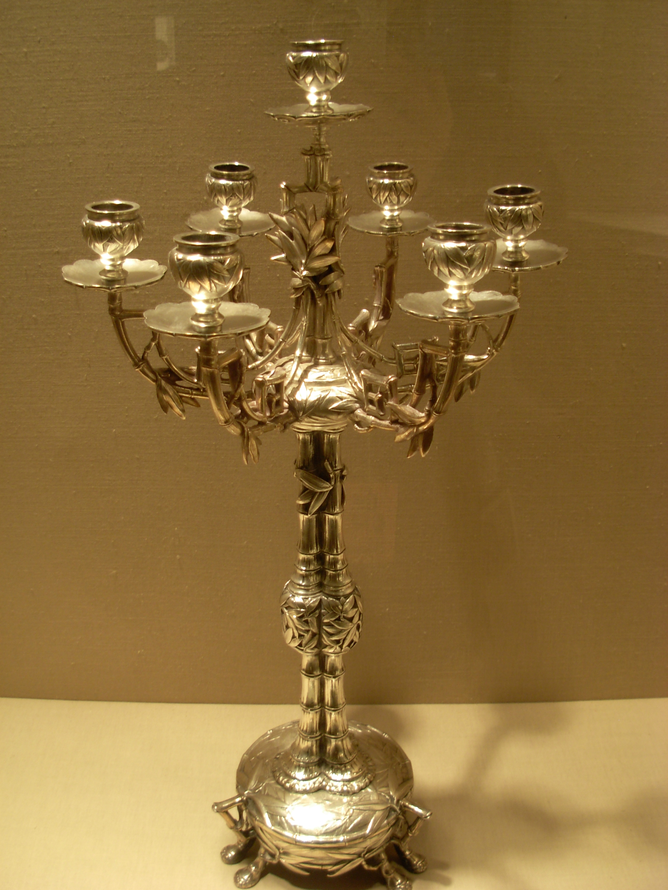 Candelabrum, French, c. 1674, silvered bronze. Manufacturer: Orfevrerie Christofle